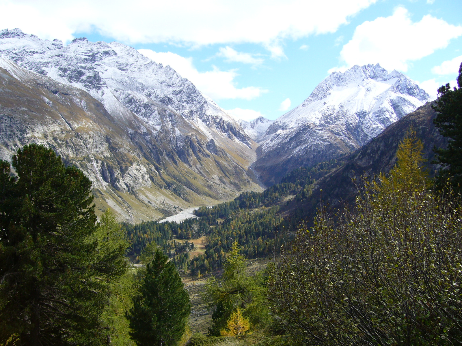 Switzerland, Val Forno nr Maloja, towards Passo del Muretto